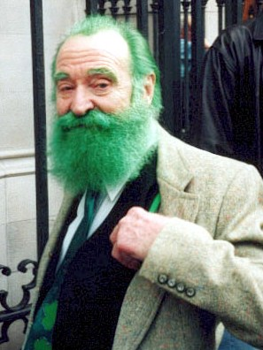 Man with green hair and beard